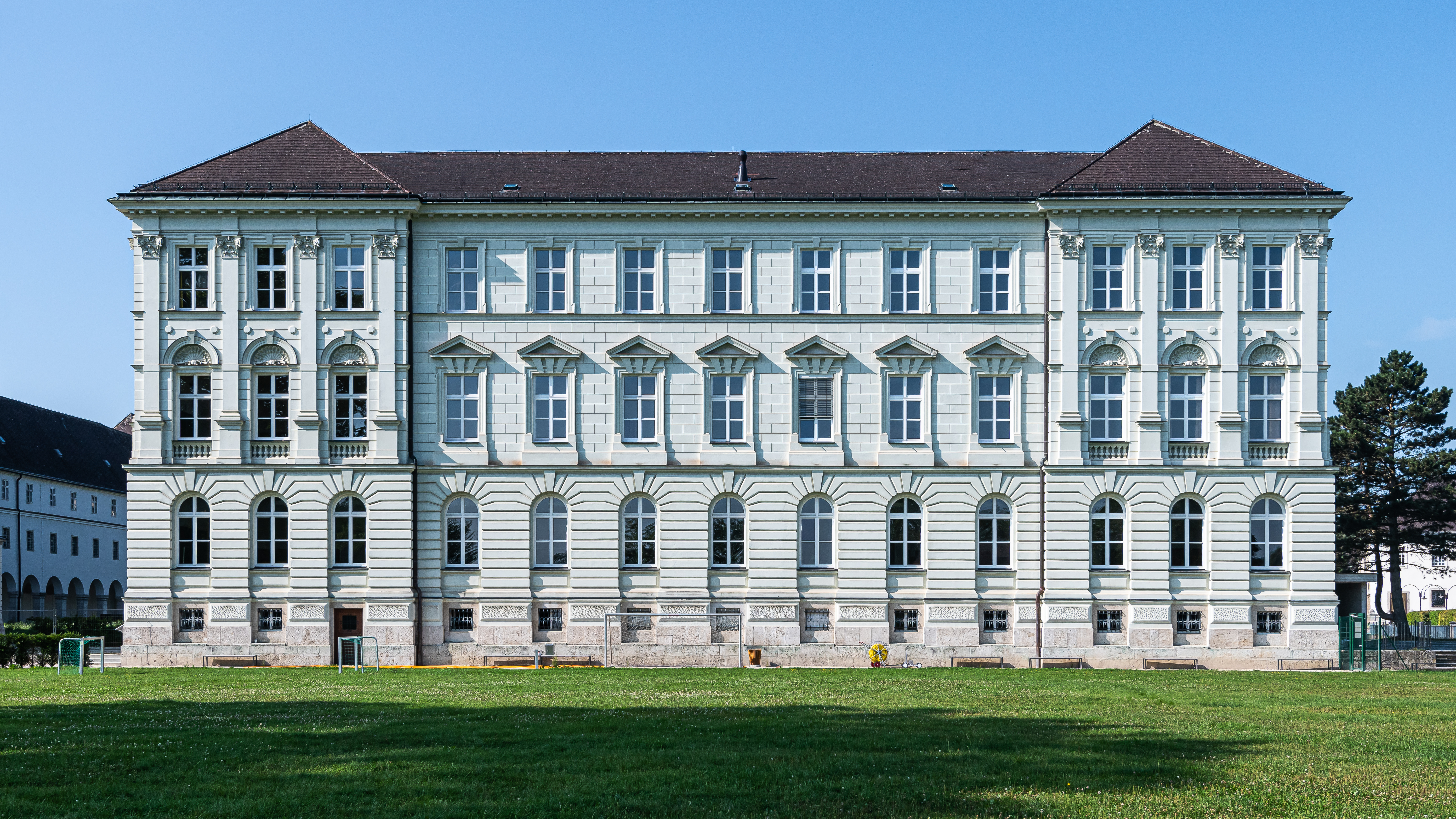 Secondary school of Kremsmünster abbey